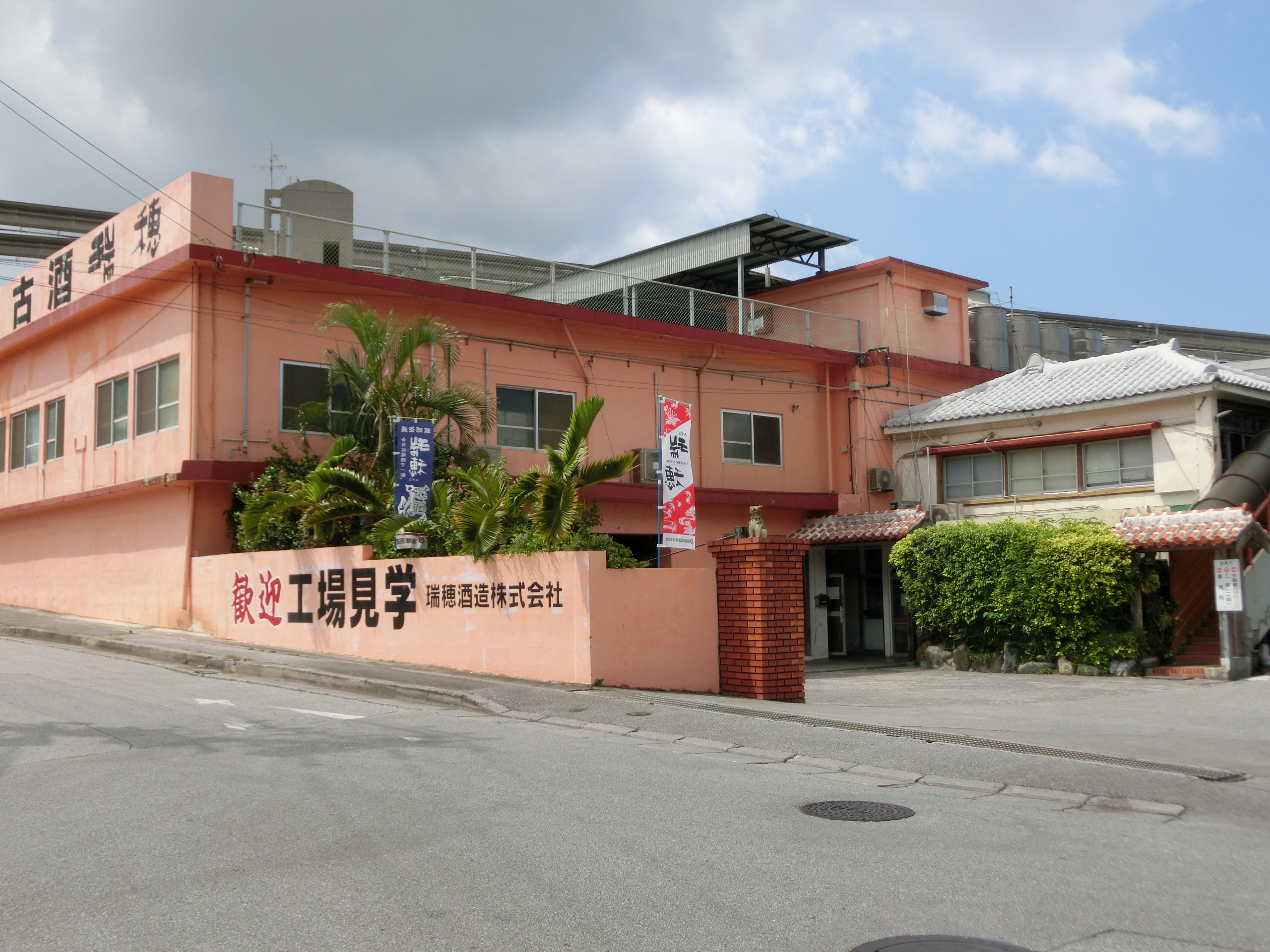 Mizuho Shuzo Head Office